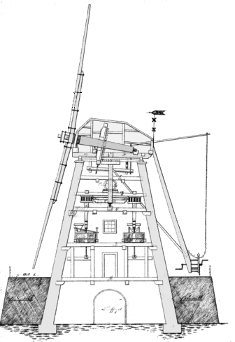 Drawing of the Hensen Mühle in Baccum, Niedersachsen, Germany The mill stood from 1883 - 1940.